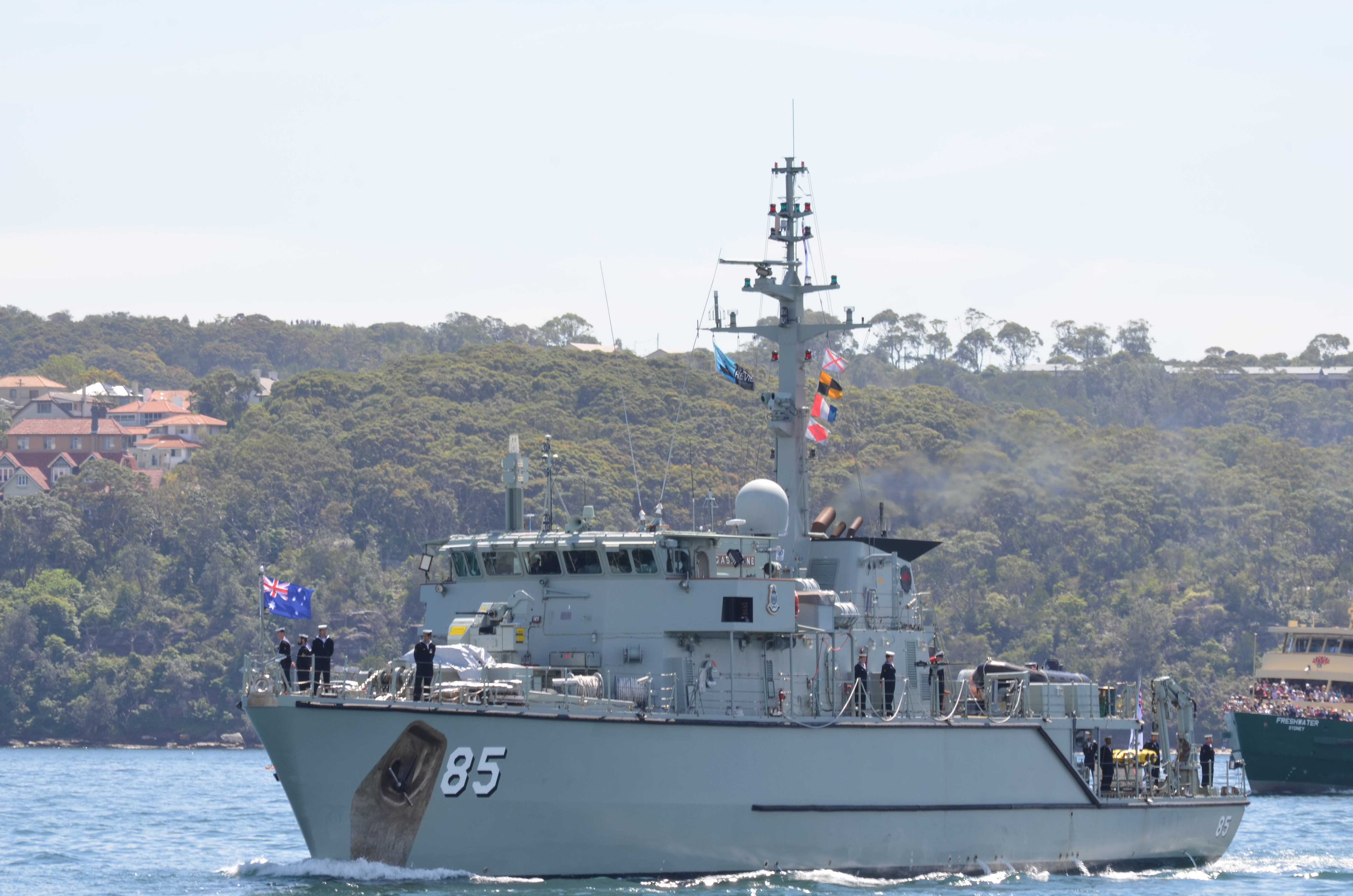 Photographs taken during day 3 of the Royal Australian Navy International Fleet Review 2013. Australian minehunter Gascoyne underway on Sydney Harbour.